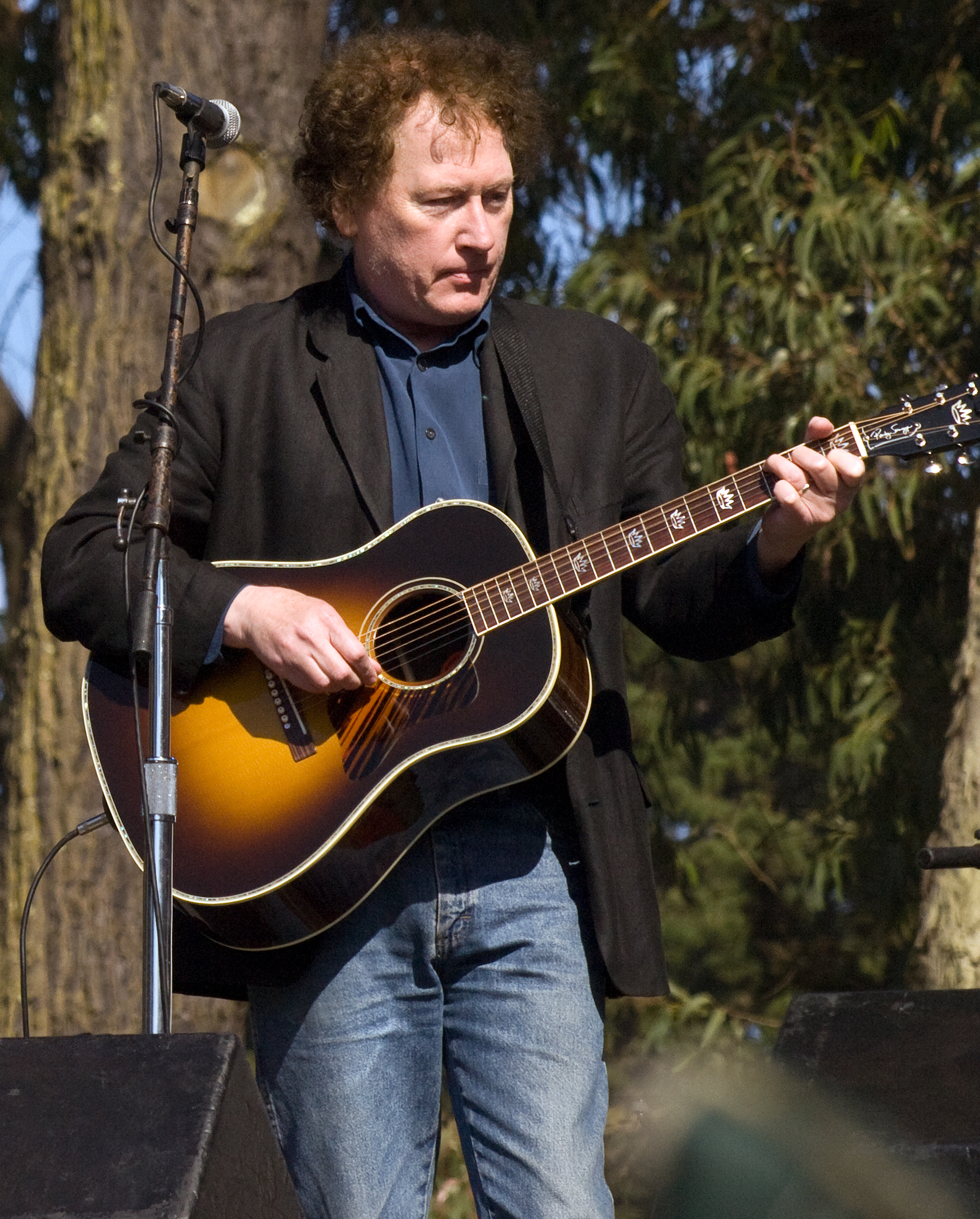 Randy Scruggs at Hardly Strictly Bluegrass, 2009